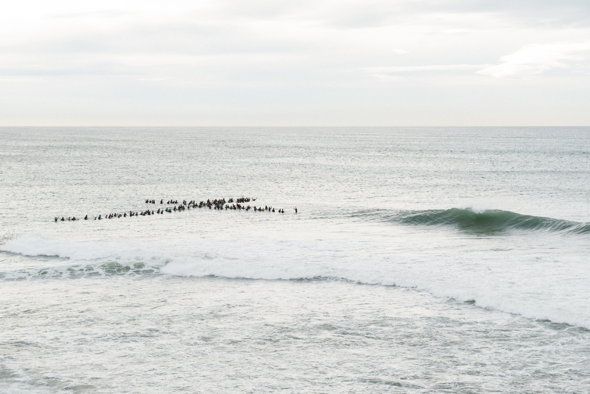 Christian Surfers first international paddle out in the form of a cross, NSW, Australia 2016